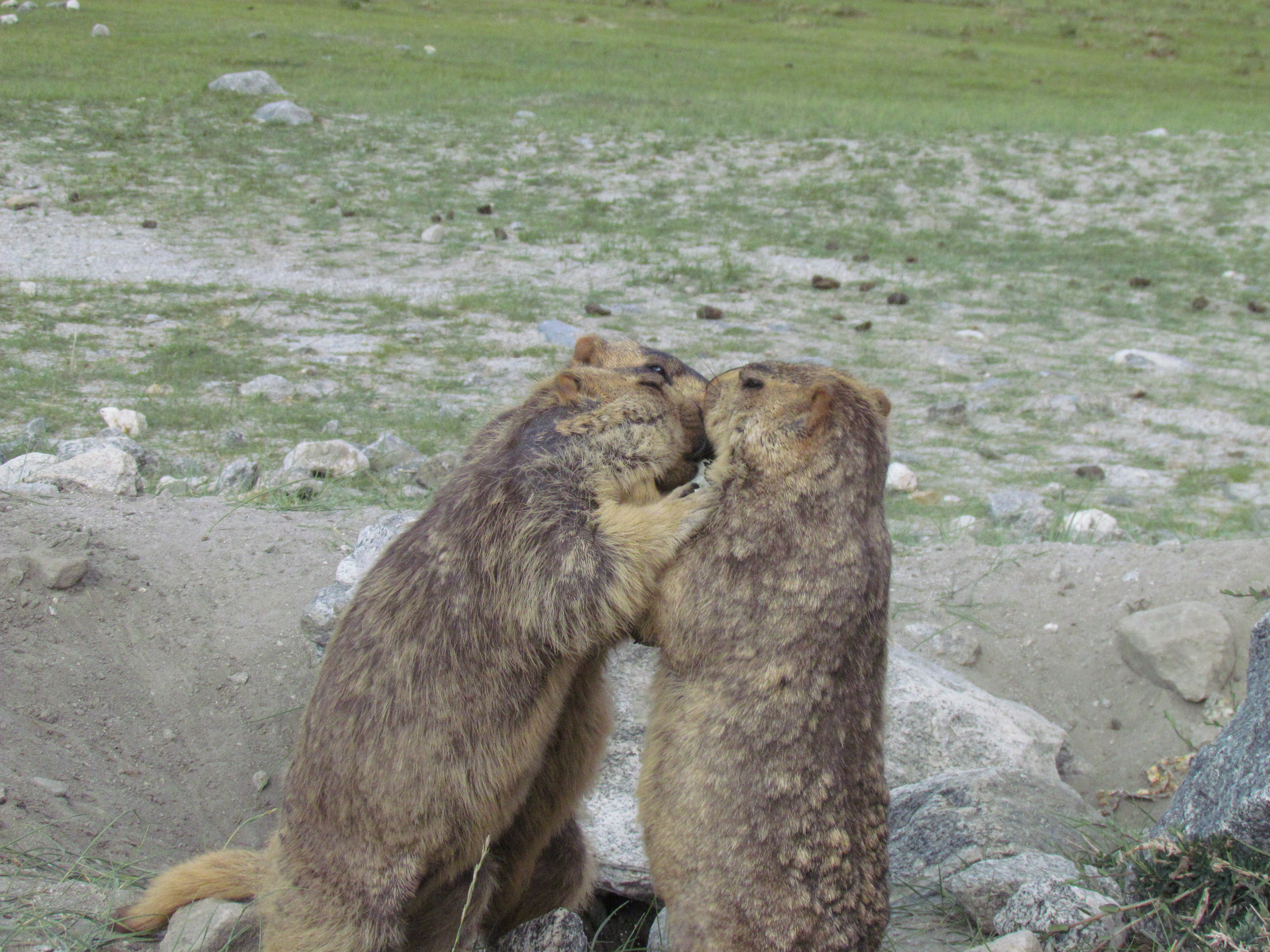 Having fun